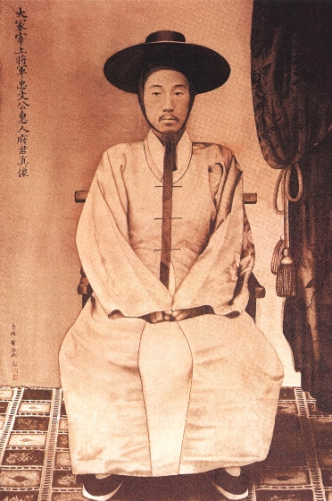 Portrait of Jo YeongHa